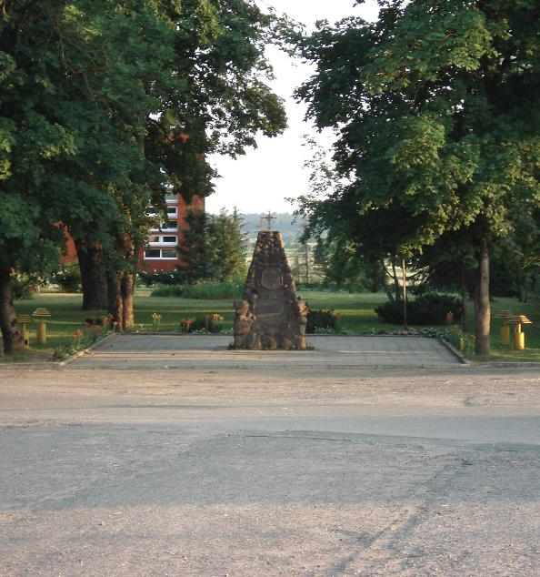 Monument to independent Lithuania (1918-1940) in Tverai.